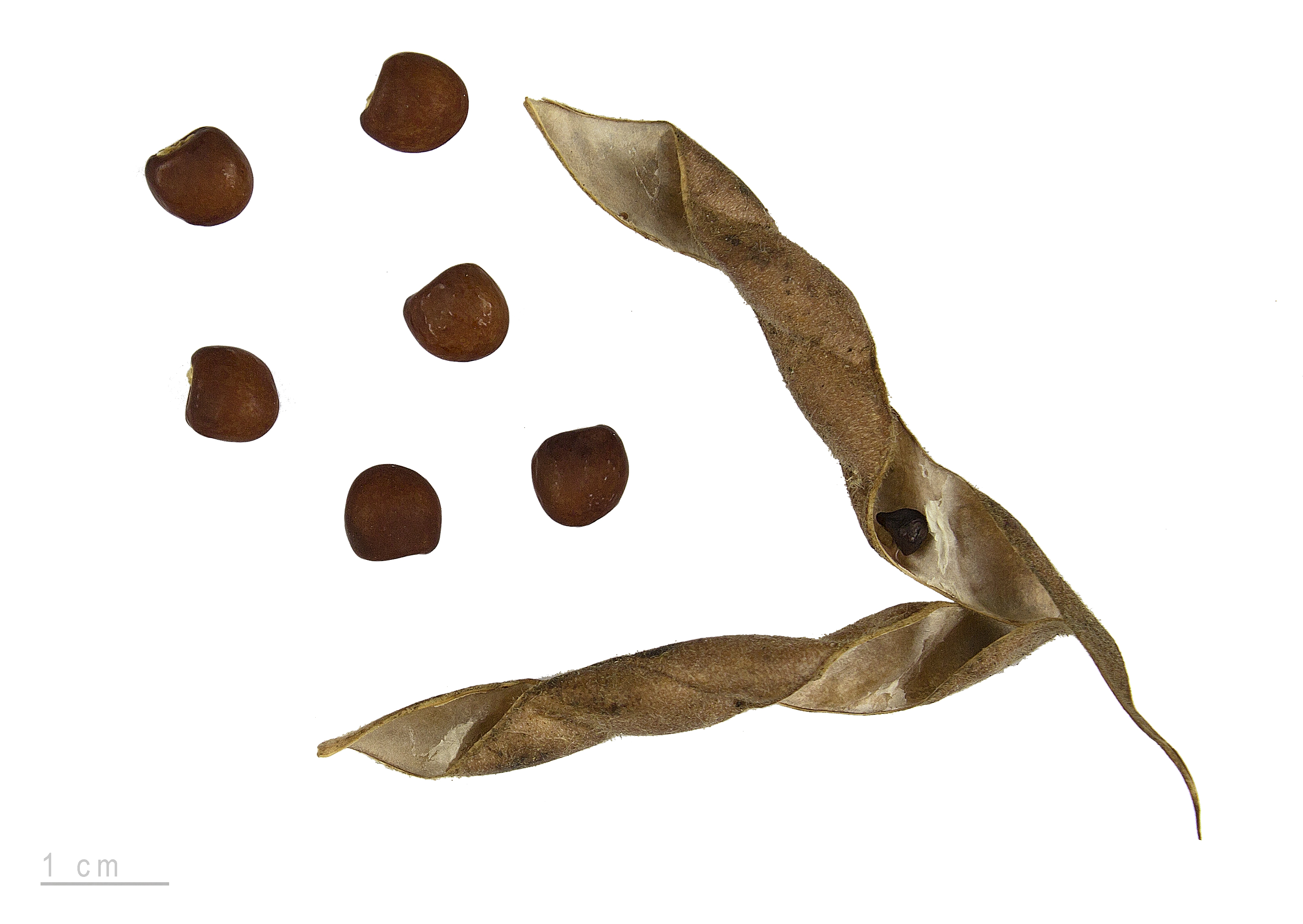 Cajanus cajan - fruits and seeds